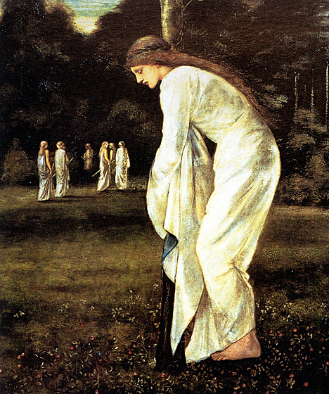 Saint George and The Dragon. The Princess Tied to the Tree: 1866 // Forbes collection, NY